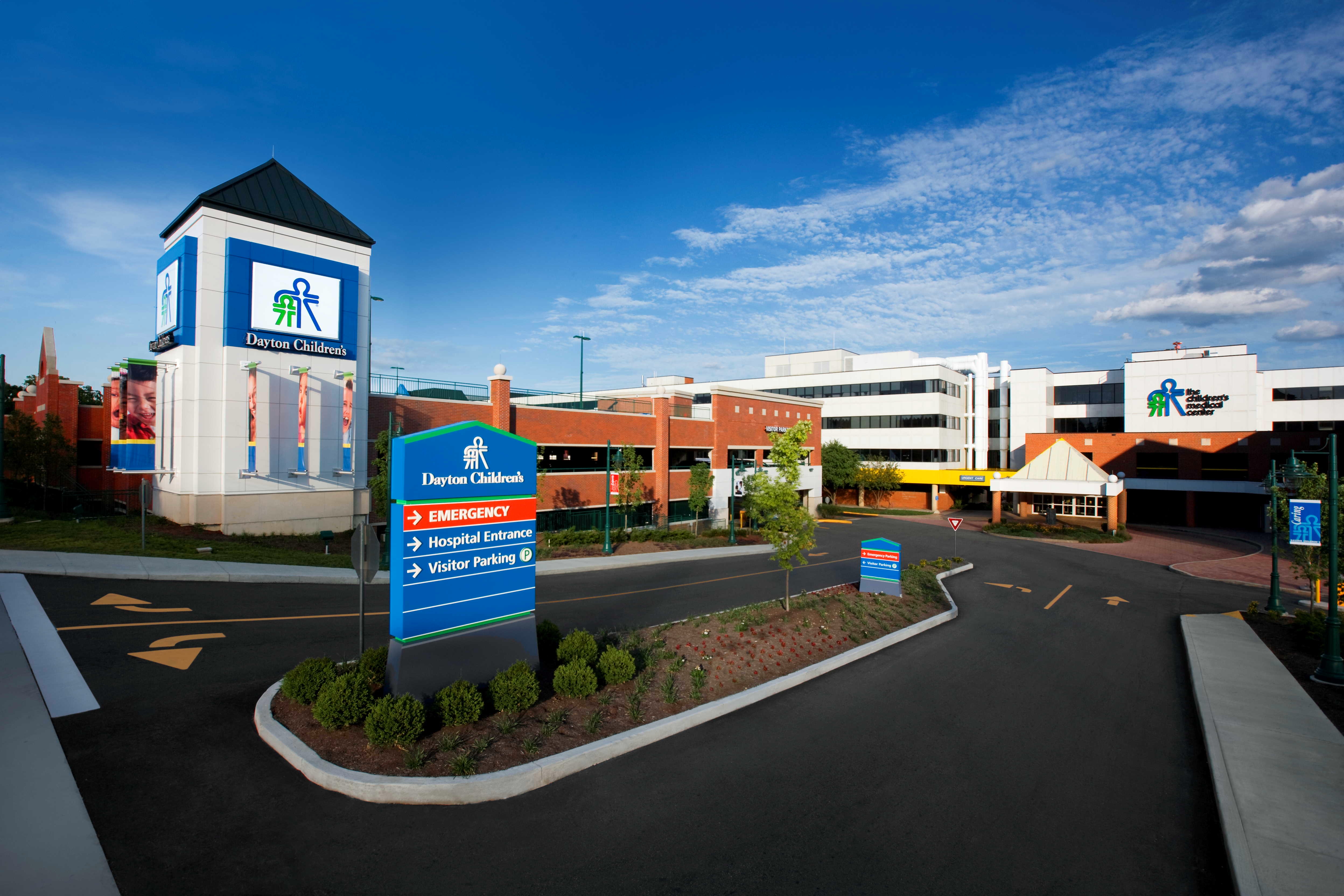 Exterior shot